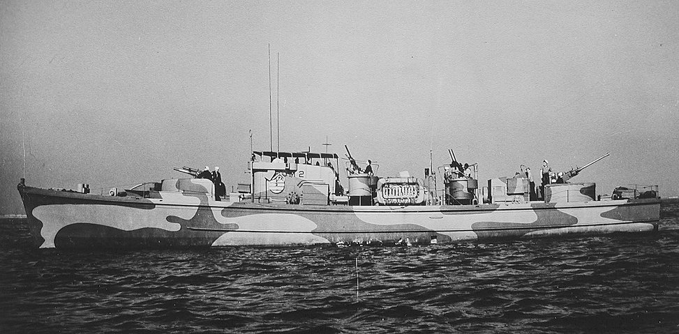 USS PGM-2 after her conversion from USS SC-757.